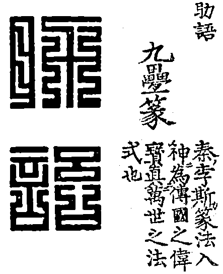 Kujoten, a kind of seal script.